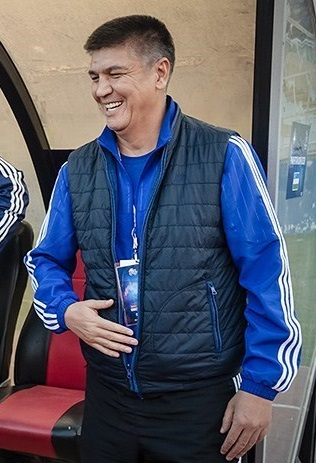 Numon Khasanov, head coach of Pakhtakor before match with Tractor Sazi, AFC Champions League matchday 4, Sahand Stadium, Tabriz